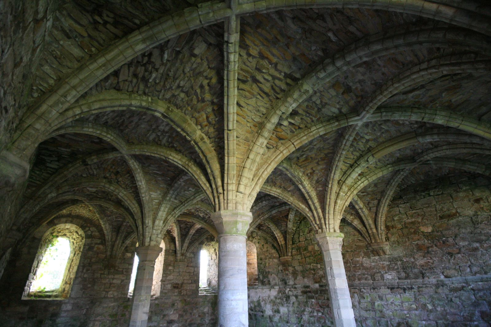 Buildwas Abbey